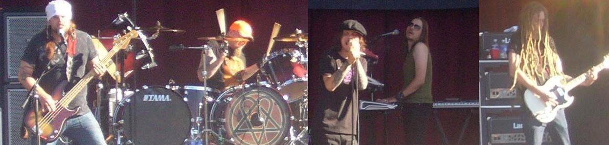 HIM, left to right: Mikko Paananen, Mika Karppinen, Ville Valo, Janne Puurtinen, Mikko Lindström.